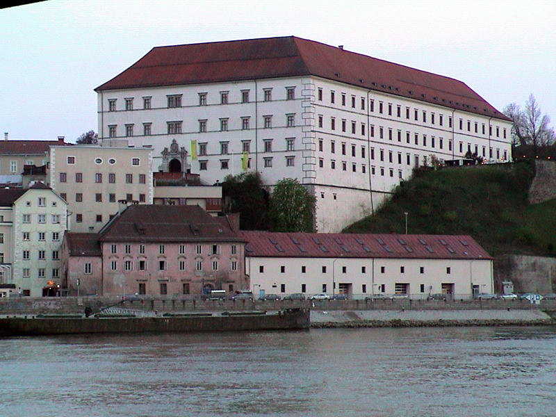 The picture shows the castle of Linz with the "Kliemsteinhaus" (=Salzamt) beneath.